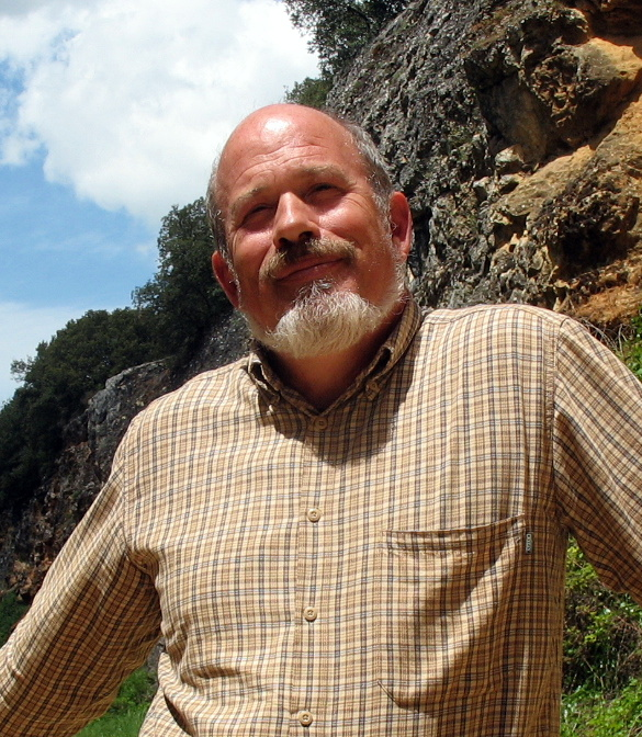 Ignacio Martínez Mendizábal. Spanish paleontologist. Professor of the University of Alcala de Henares. Photo taken at railroad trench in the Atapuerca Range archaeo-palanteological sites on May 27, 2016.